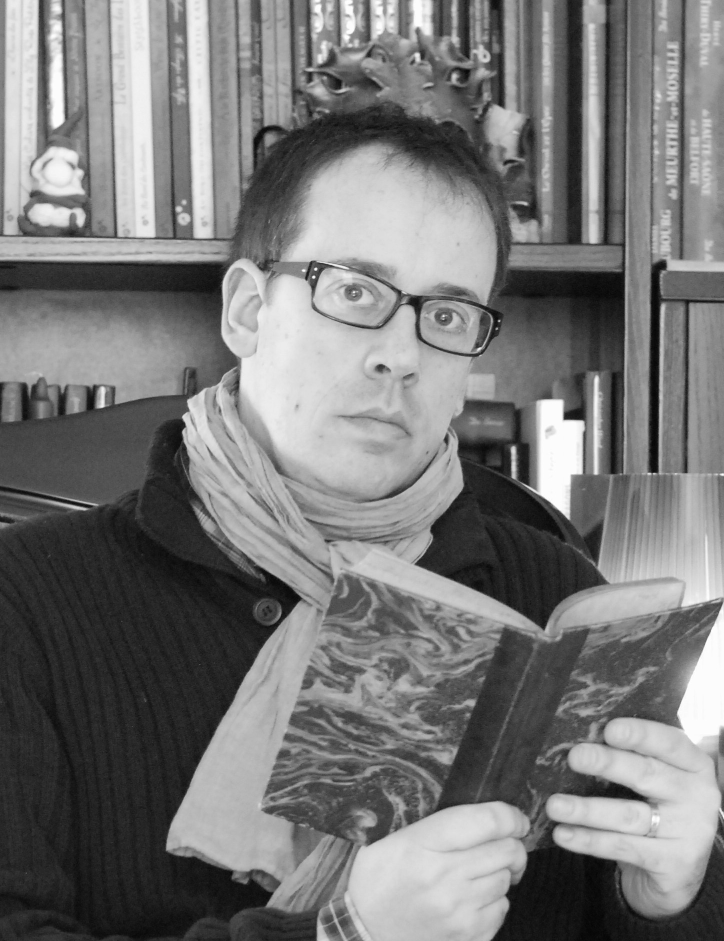 Belgian writer Richard Ely, photo by Séverine Stiévenart, "free to use".